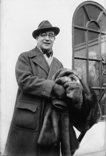 Nikolai Sokoloff (1886 – 1965), Russia-American conductor and violinist